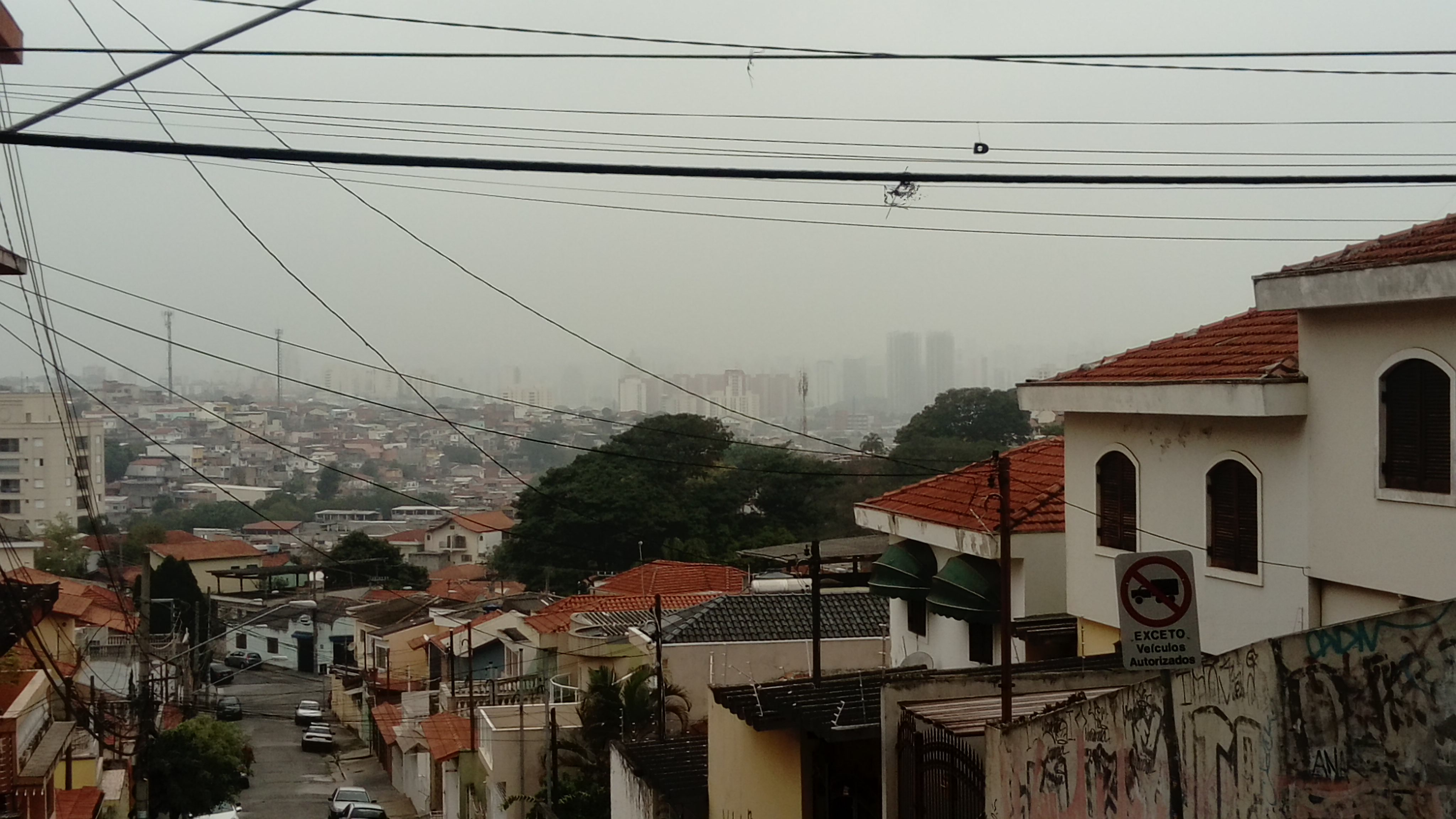 Vila Carolina neighborhood, in north São Paulo, Brazil